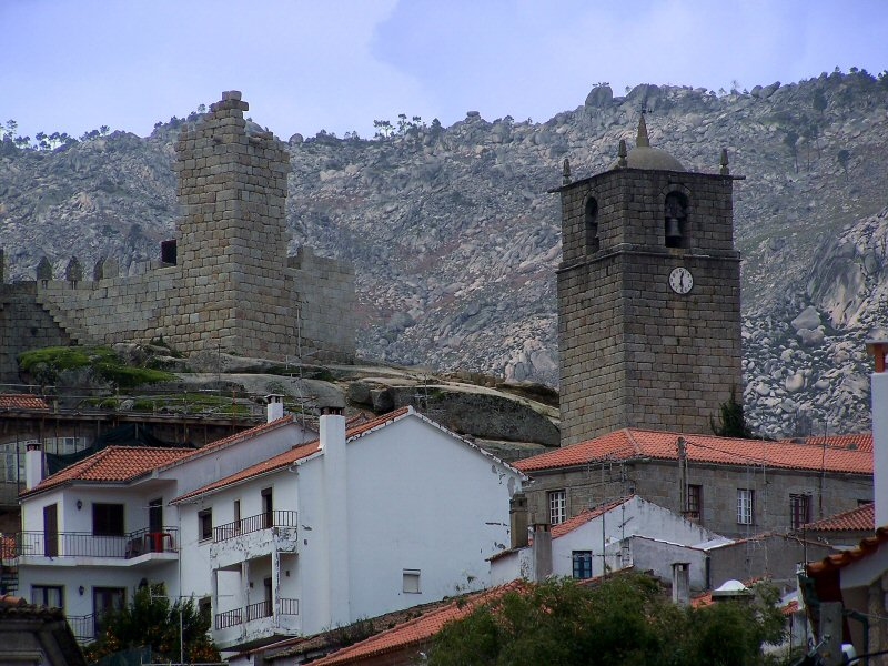 Is the village of Castelo Novo (New Castle).Portugal Link (PT): user:sacavem (pt) (usuário:sacavem)